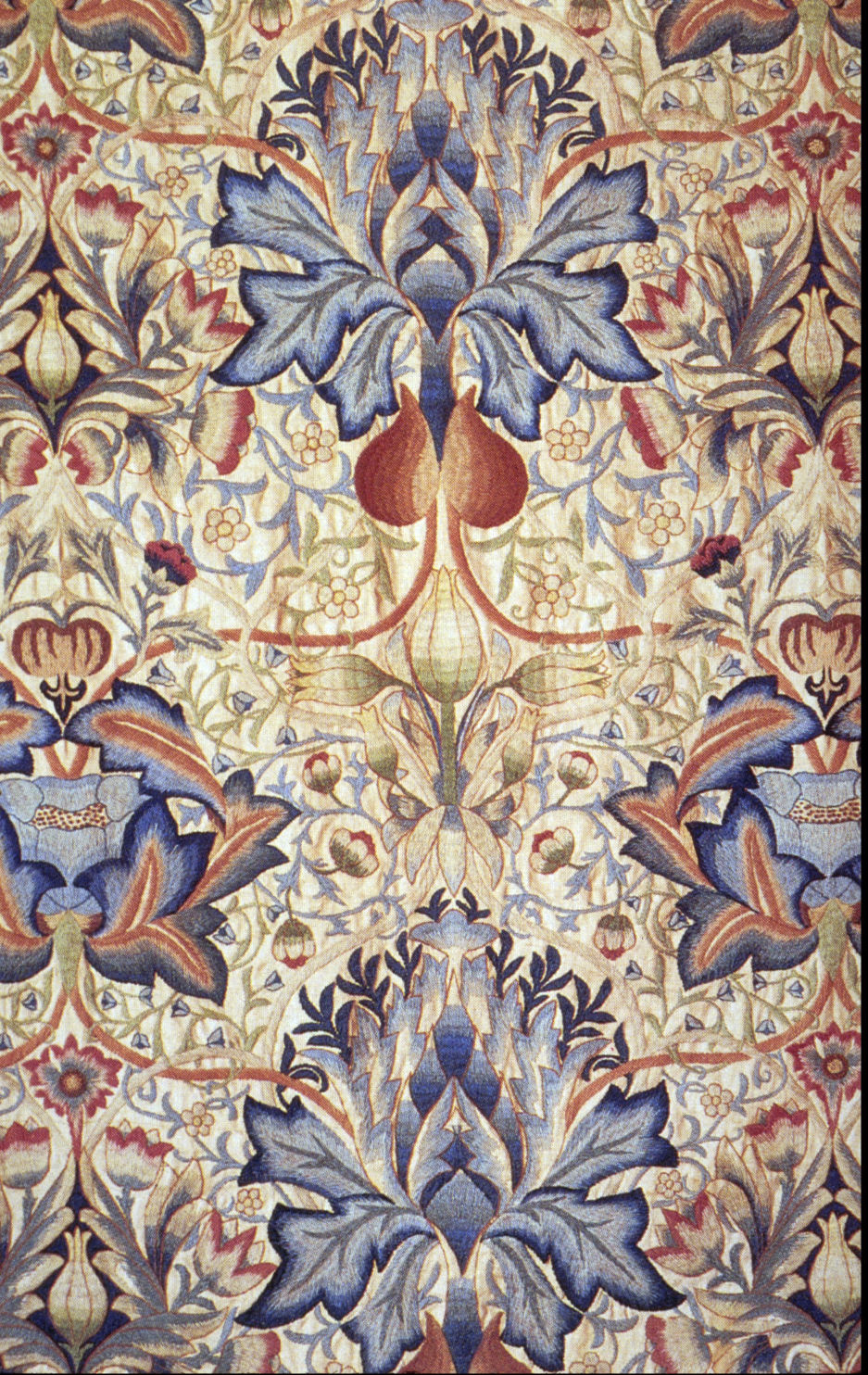 Detail of Art Needlework embroidery "Artichoke" in wool on linen, designed by William Morris for Ada Phoebe Godman in 1877 and subsequently available from Morris and Company. (See Linda Parry, William Morris Textiles, New York, Viking Press, 1983, p. 20-21.)